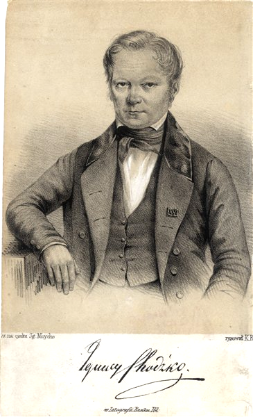 Ignacy Chodźko